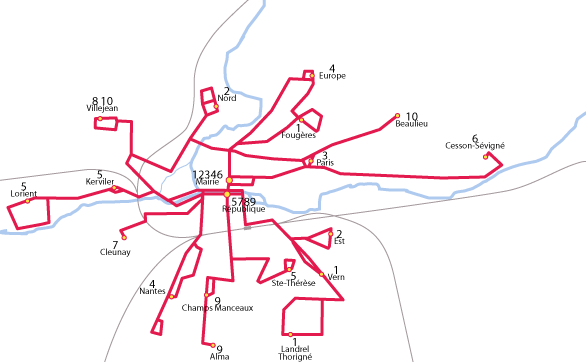 Bus map of Rennes in 1972